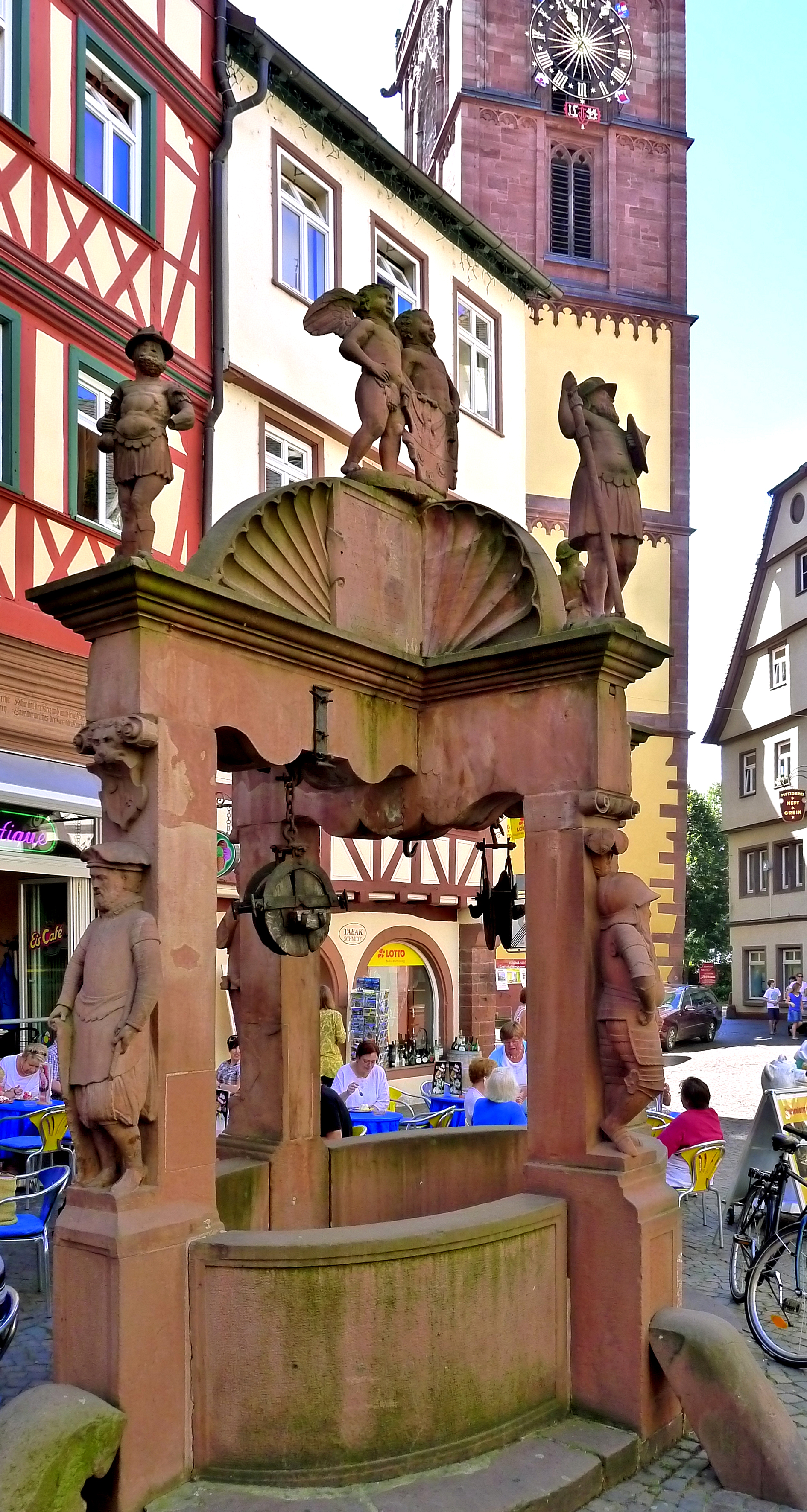 Renaissance water well in Wertheim Marktplatz, Main-Tauber district.